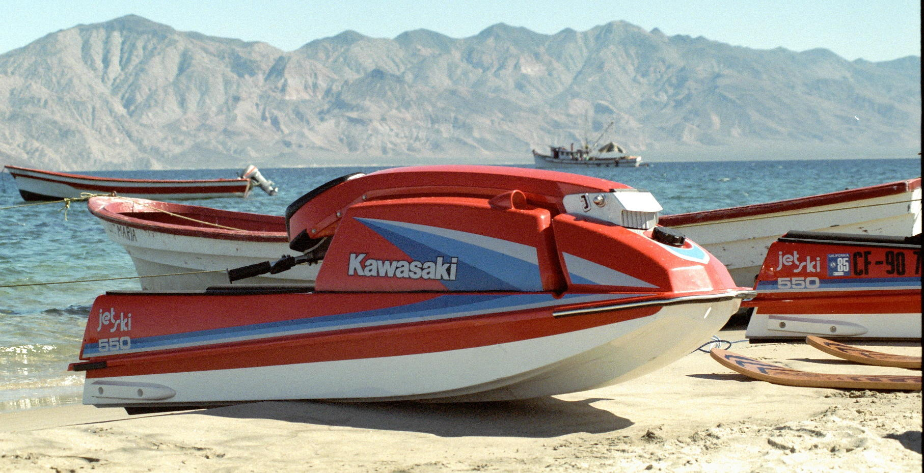 New 550cc Kawasaki Jet Ski® on the beach in Mexico.